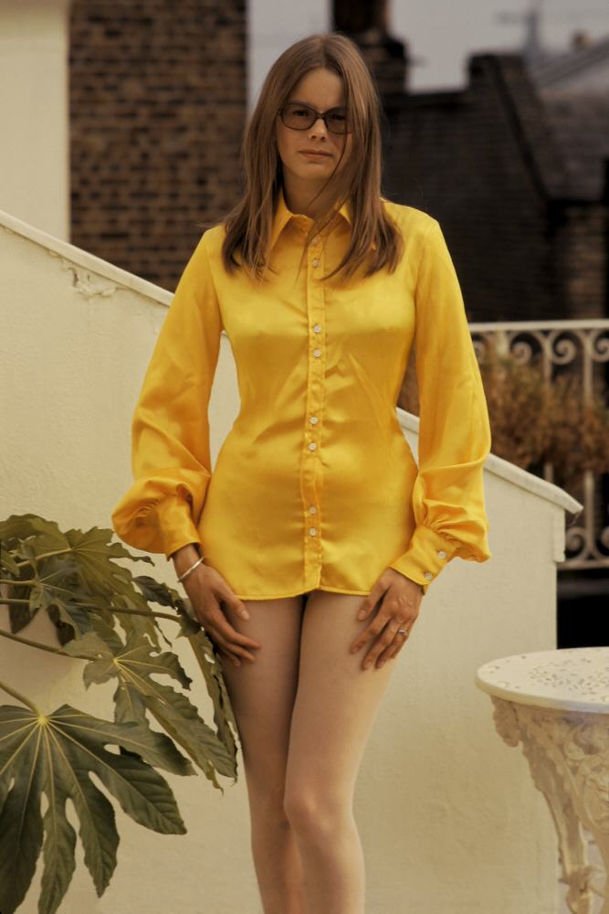 Model posing in yellow mini-dress